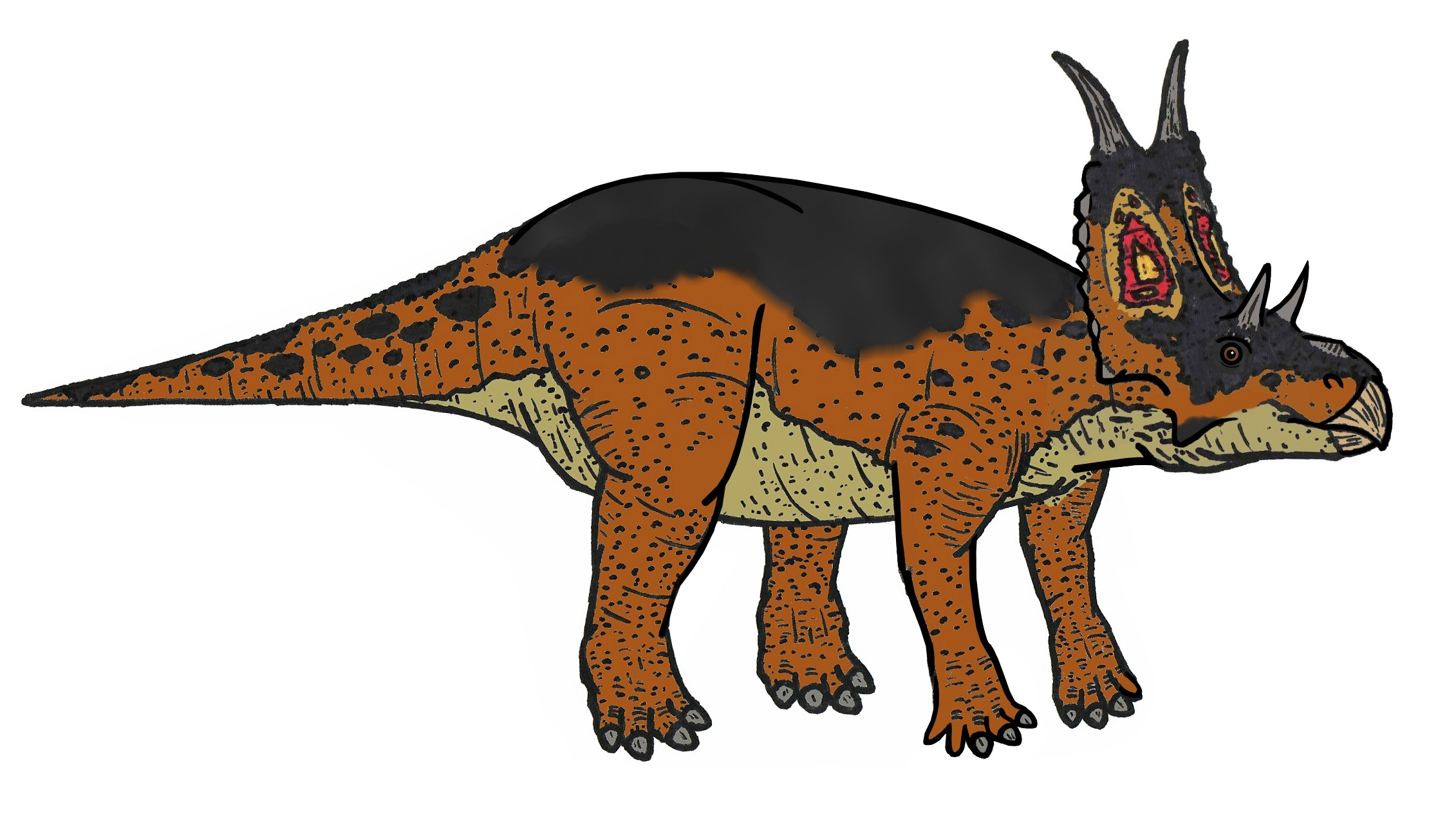 Diabloceratops was a herbivorous dinosaur, related to other horned dinosaurs like Triceratops and Styracosaurus. Diabloceratops lived in Utah i the late cretaceous, about 85 million years ago.